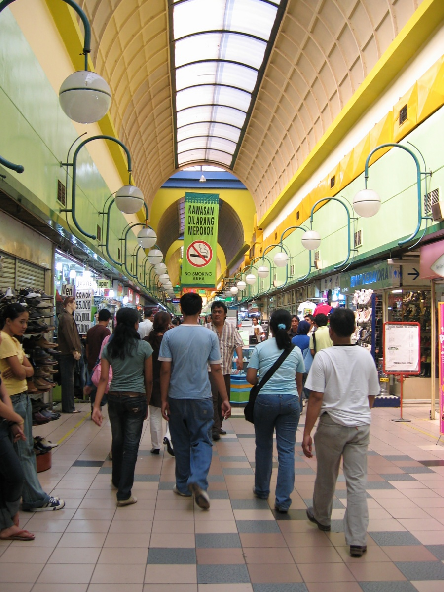 Main corridor of Blok M Mall, Jakarta, Indonesia